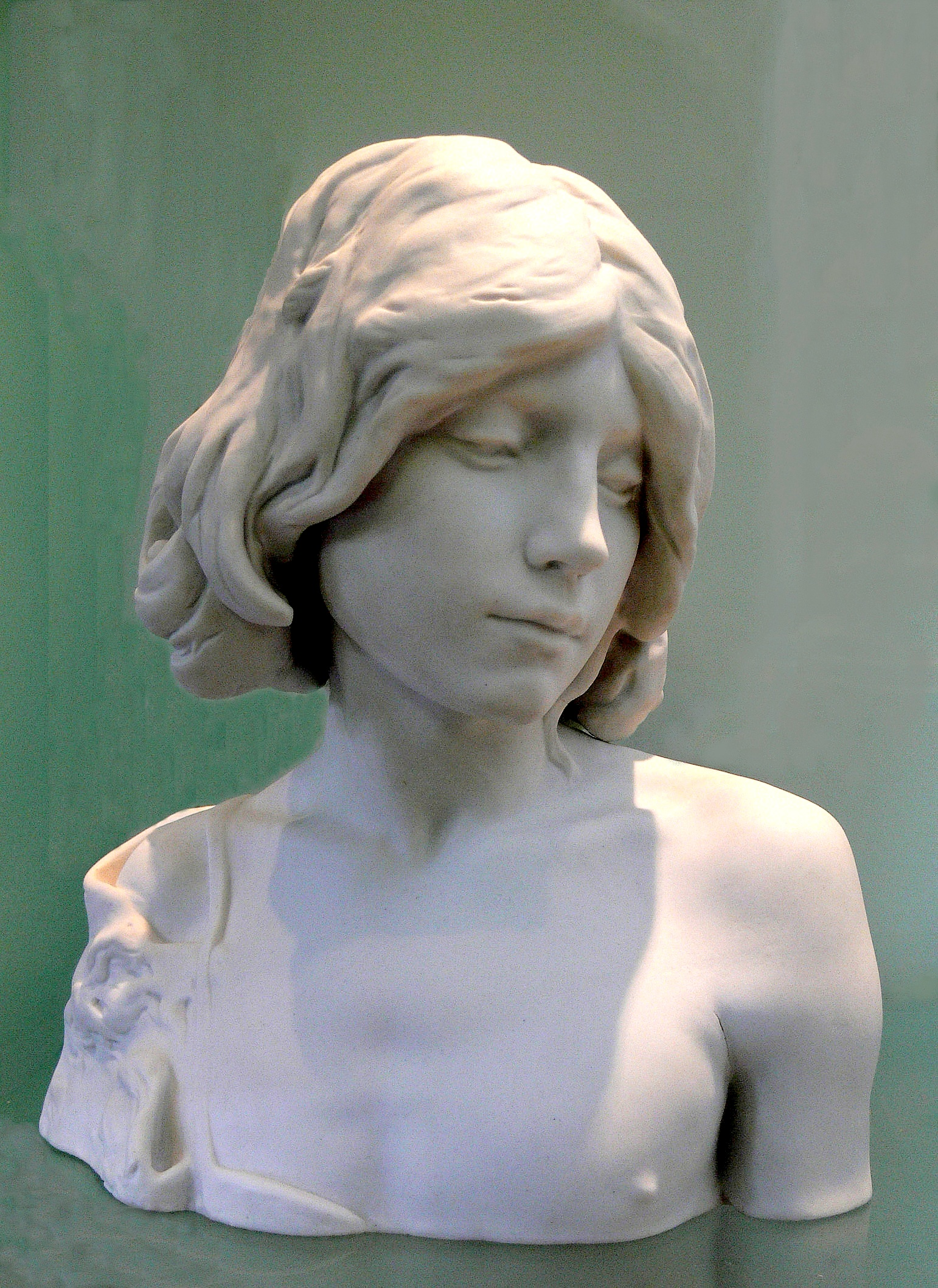 Sculpture made by Alfred-Charles Lenoir (1850-1899). Title : Saint-Jean Baptiste enfant (1883).